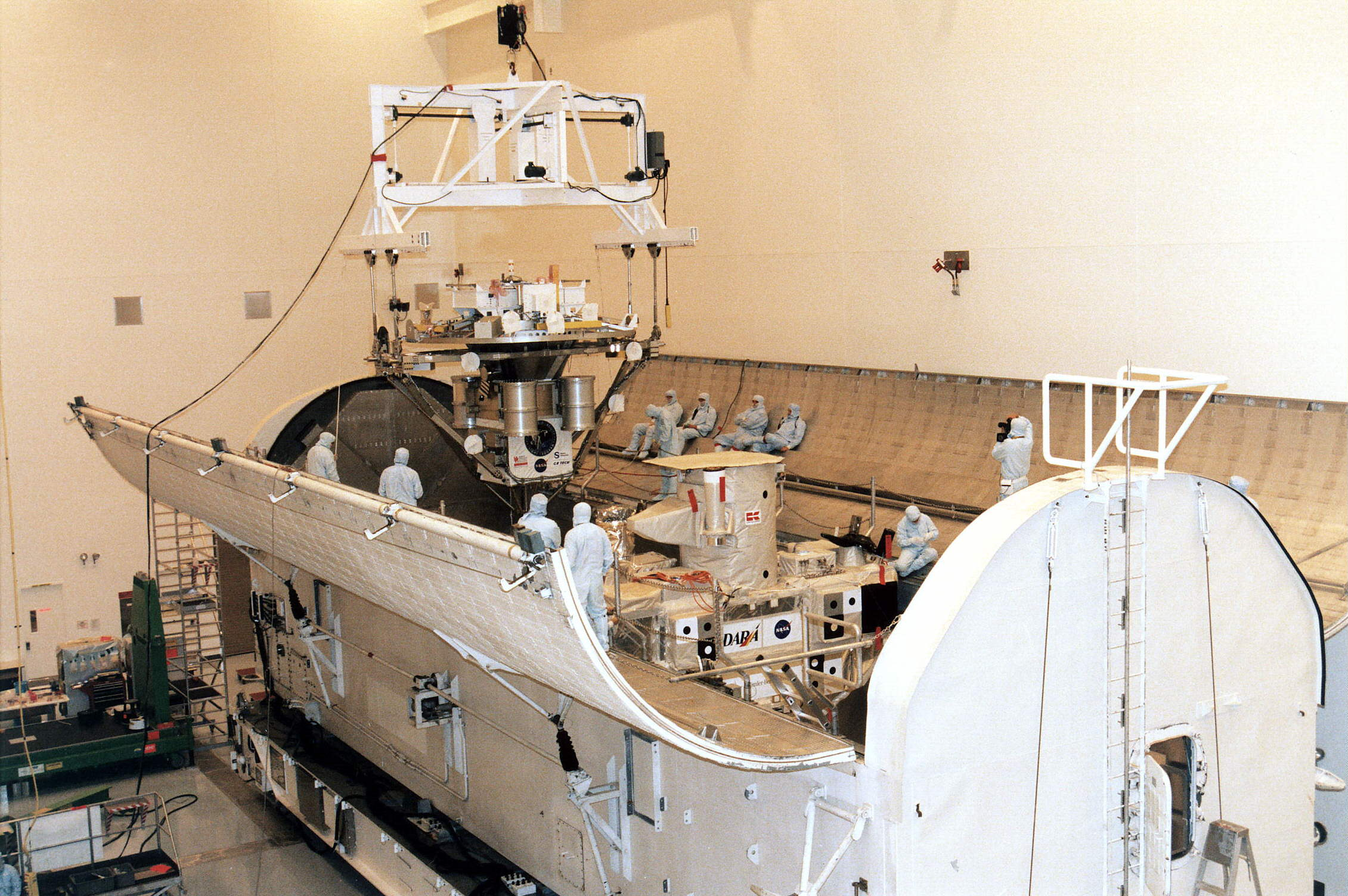 In the Multi-Payload Processing Facility, the Orbiting and Retrievable Far and Extreme Ultraviolet Spectrometer-Shuttle Pallet Satellite-2 (ORFEUS-SPAS-2), is already secure in the payload canister as the Wake Shield Facility-3 (WSF-3) is lowered into the canister beside it.